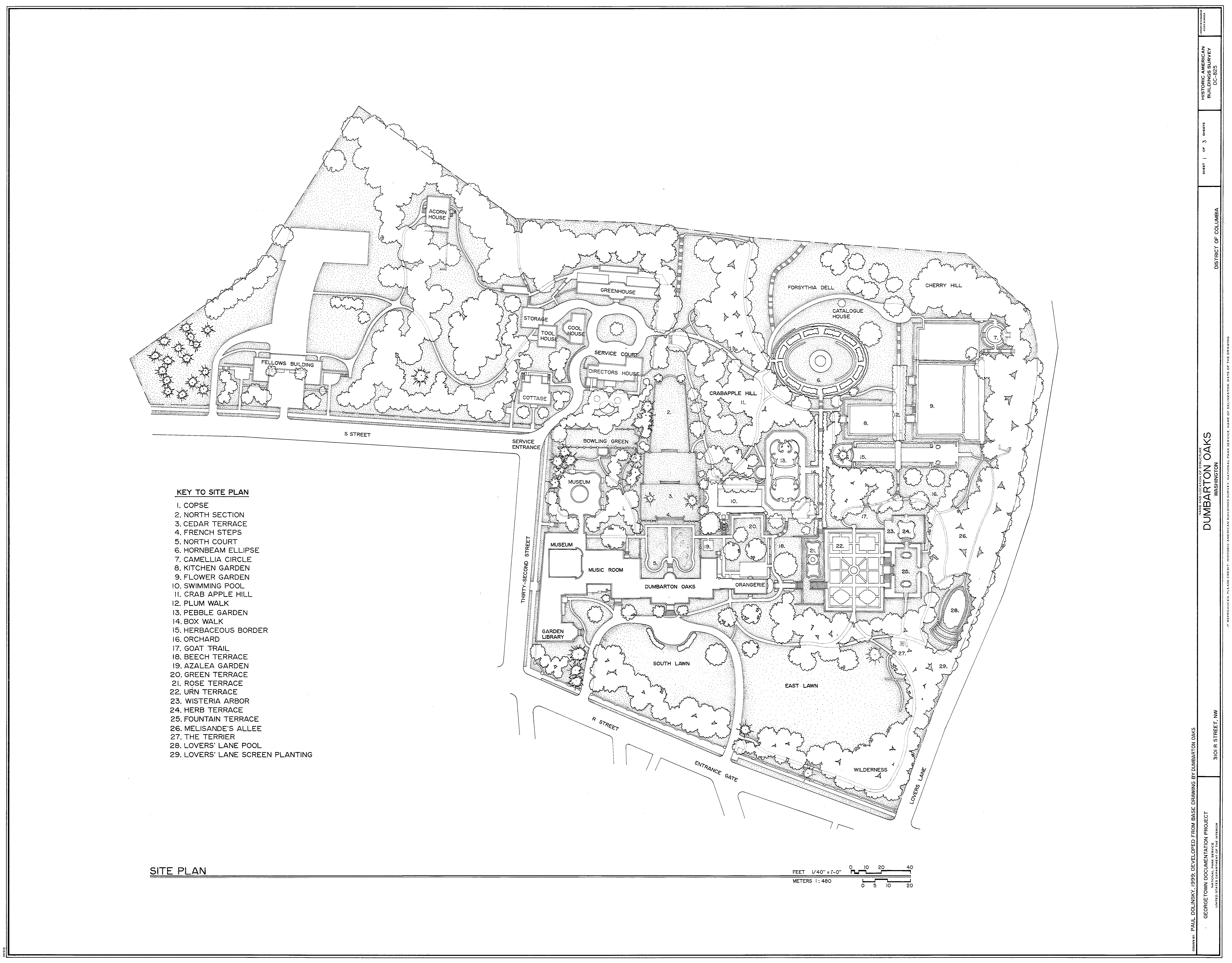 Site plan of Dumbarton Oaks, 3101 R Street, Northwest, Georgetown, Washington, D.C., USA.